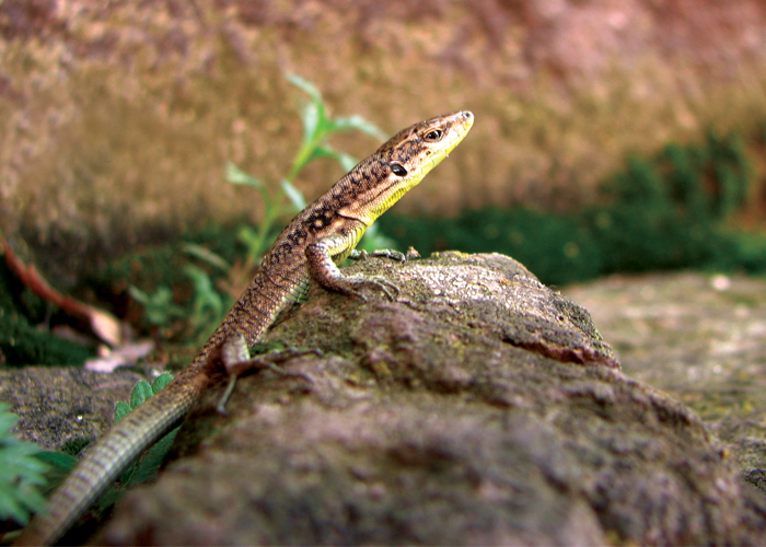 Darevskia rostombekovi in Armenia